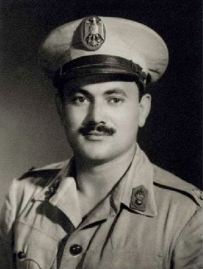 Official portrait of Revolutionary Command Council member Kamel el-Din Hussein